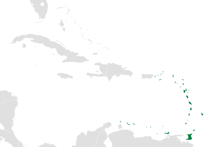 Map of the Caribbean nations. iThe source code of this SVG is valid. Map of the caribbean with the Lesser Antilles highlighted in green.